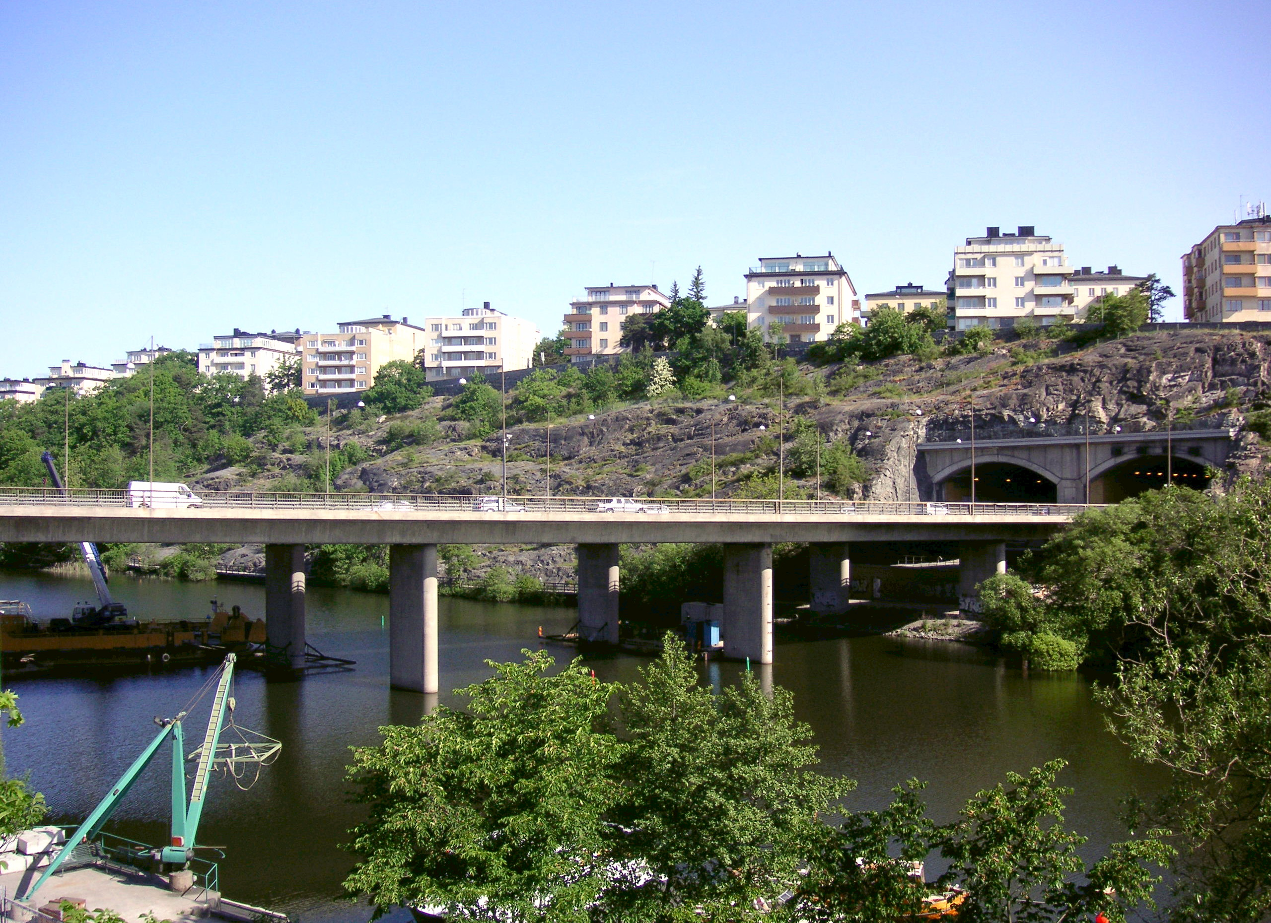 Fredhälls bridge (Fredhällsbron) in Stockholm